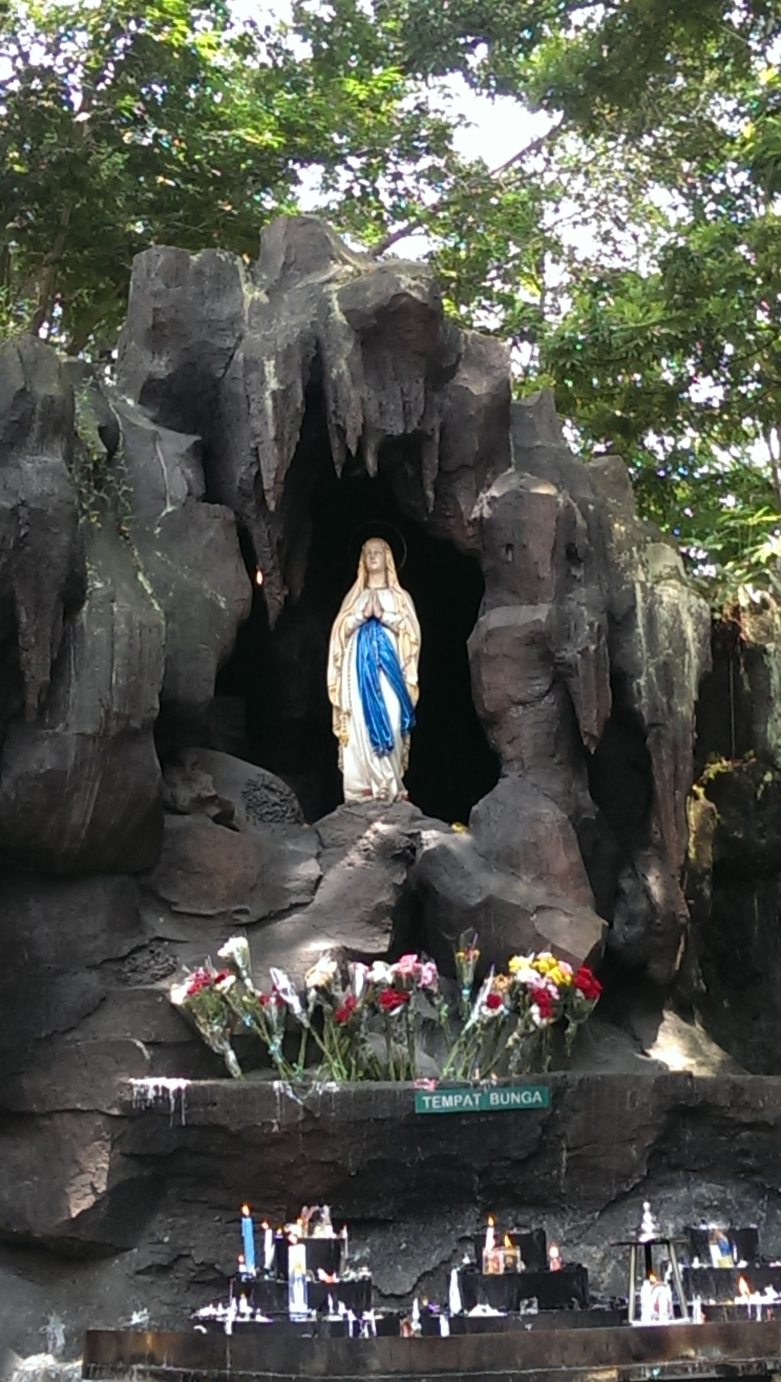 St Mary statue at Maria Kerep Cave, Ambarawa. This place is one of the holy pilgrimage place for Roman Catholics in Indonesia.